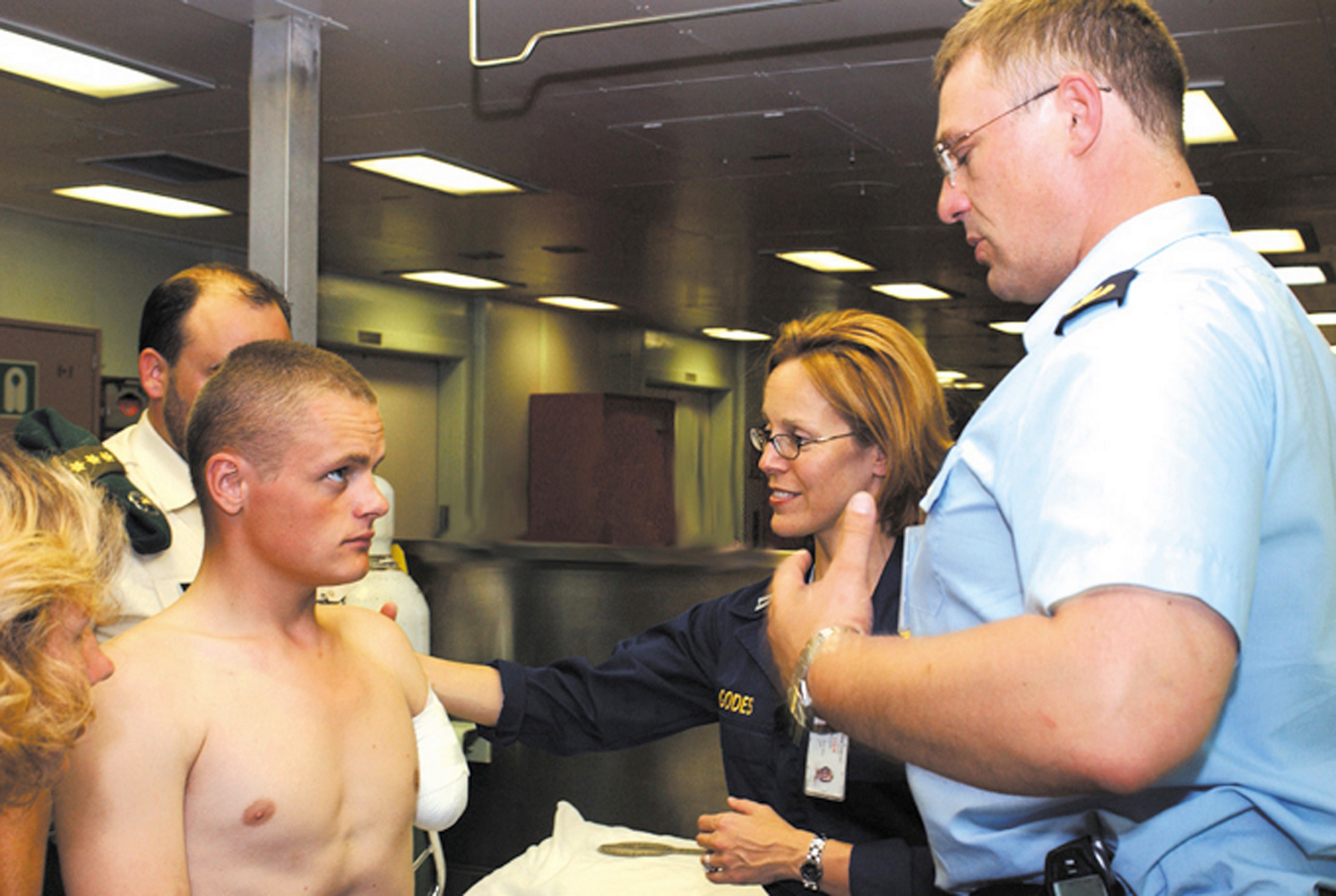 Off the coast of Lithuania (Jul. 16, 2002) -- U.S. Navy Lt. and physical therapist Paula Godes assesses Arturas Vailionis’ condition to see if he is a candidate for a prosthetic arm. Arturas, a Lithuanian soldier, has a translator (right) helping to explain both his and Godes’ questions as he is examined aboard the U.S. Navy hospital ship USNS Comfort (T-AH 20). Vailionis is one of many patients ferried to the ship for medical consultation during Comfort’s three-day visit to this Baltic country in support of joint medical exercise Rescuer/Medical Exercise Central Europe (MEDCEUR) 02. U.S. Navy photo by Hospital Corpsman 2nd Class Kate Castillo. (RELEASED)